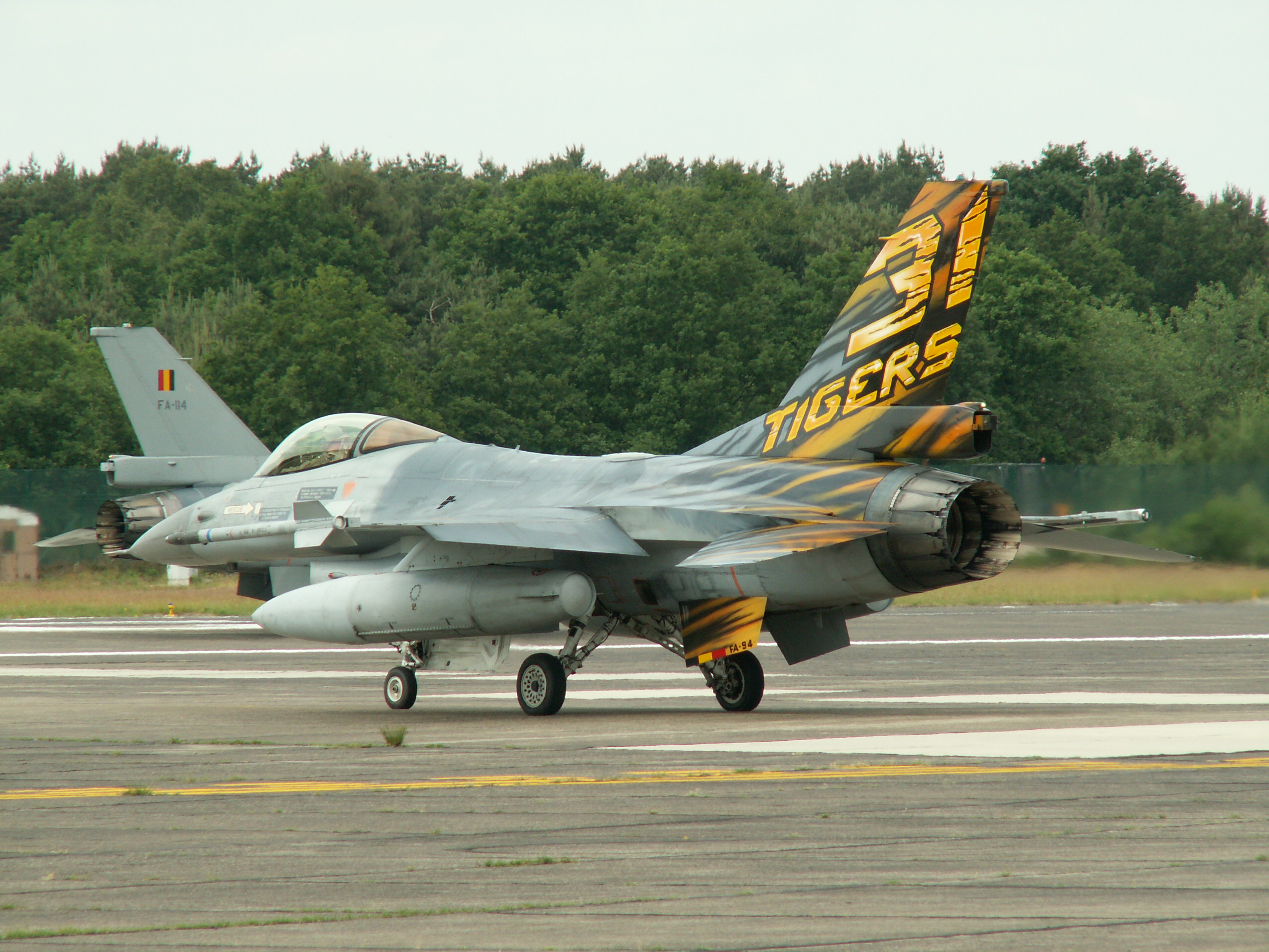 Photographed at a Spottersday 2005 at Kleine Brogel. Belgium Air Force